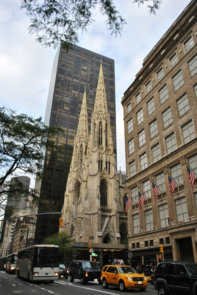 St. Patrick